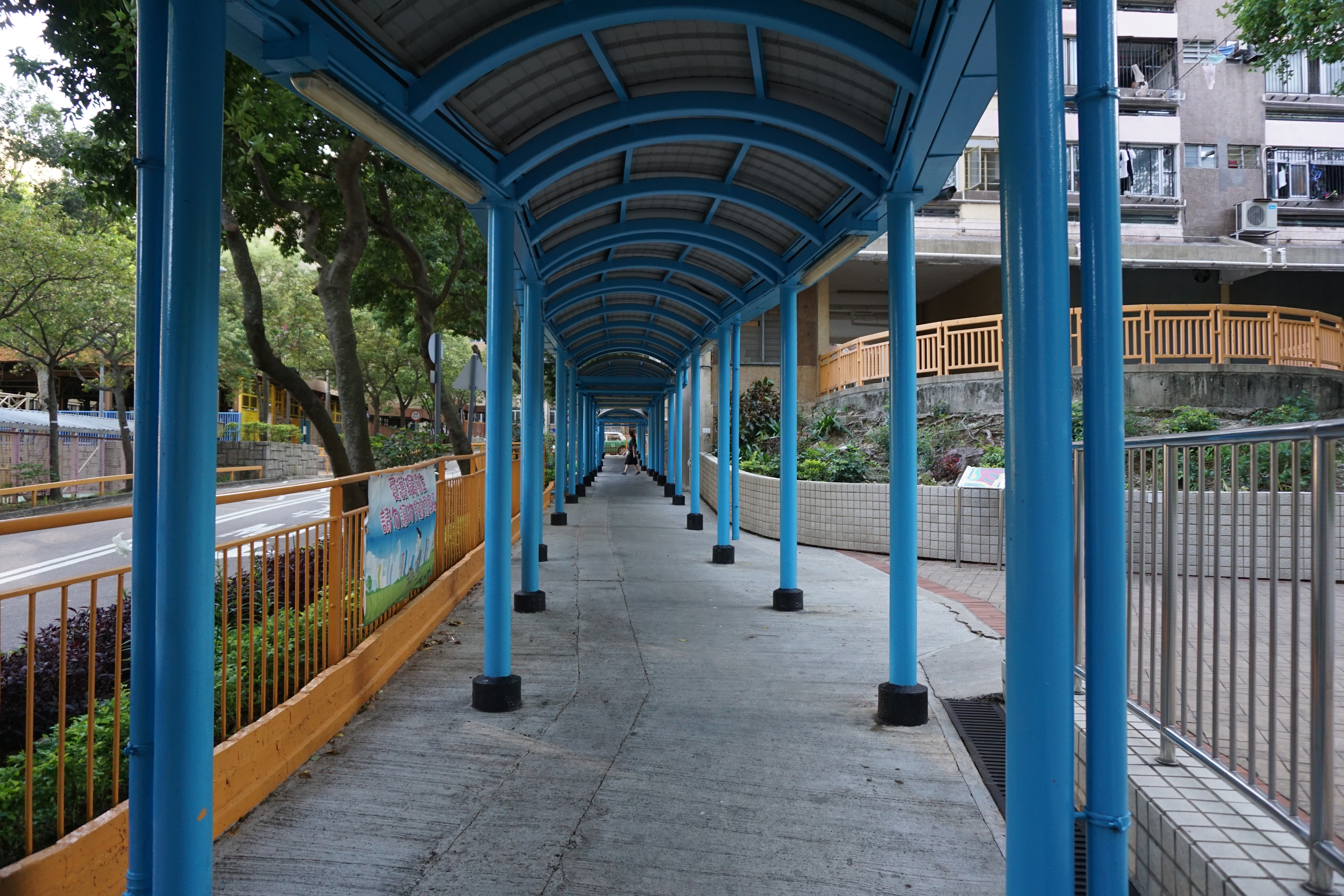 Shan King Estate in Tuen Mun, Hong Kong.